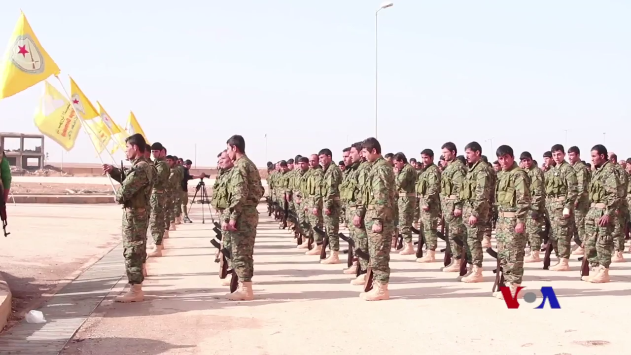 Graduation of the second contingent of the Syrian Border Security Force, consisting of around 250 fighters, that took place south of al-Hasakah in northeastern Syria.